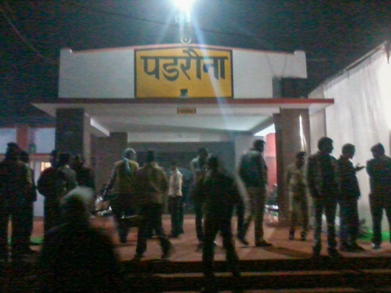 This is Padrauna Railway Station